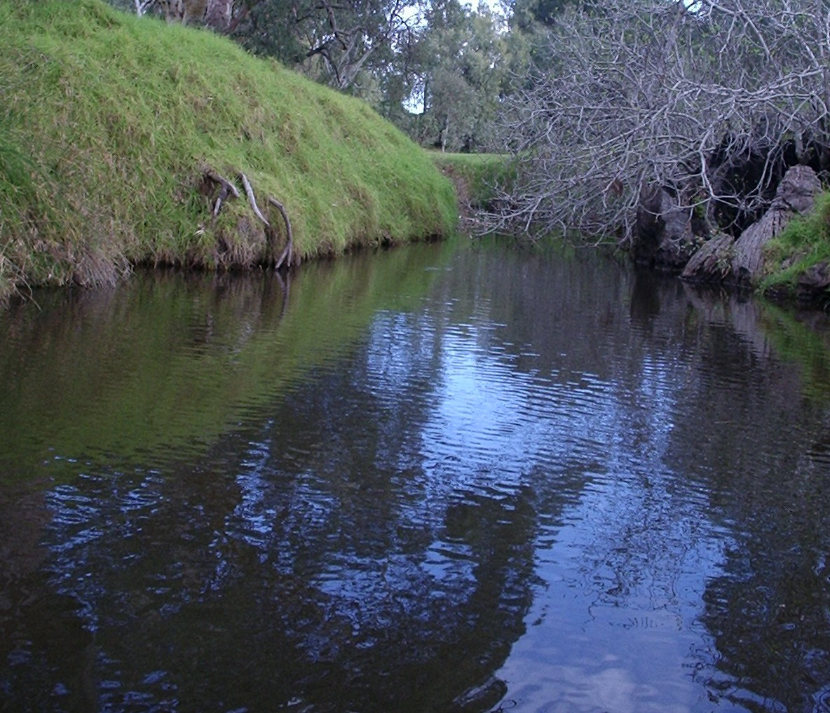 Little para River in early spring 2006 at the Carisbrooke reserve, North of Adelaide, South Australia